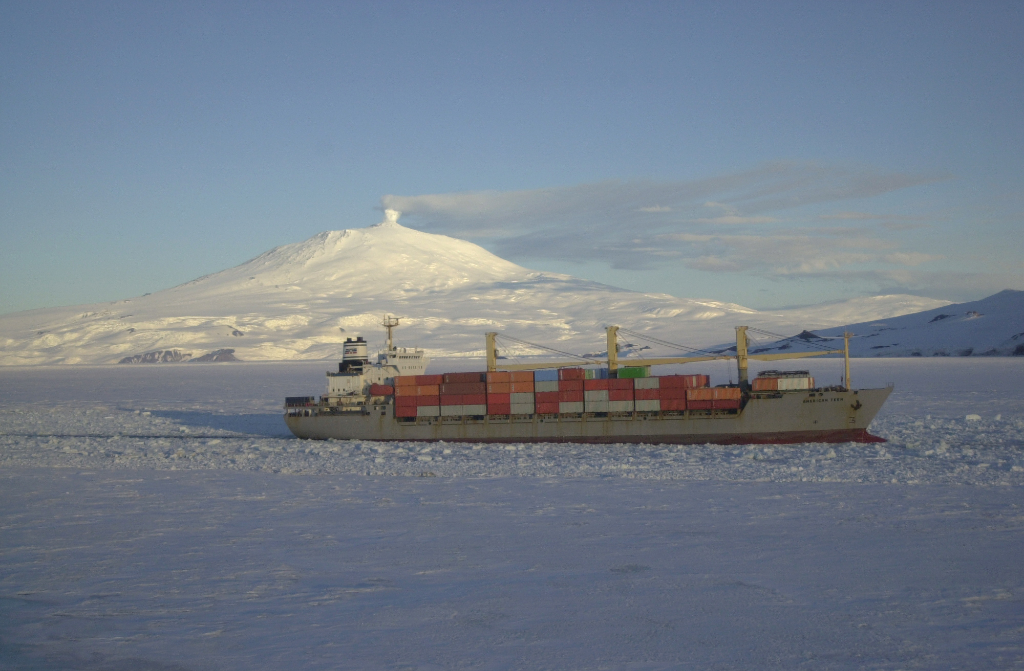 Mount Erebus with boat in McMurdo Sound in the foreground, Ross Island, Antarctica